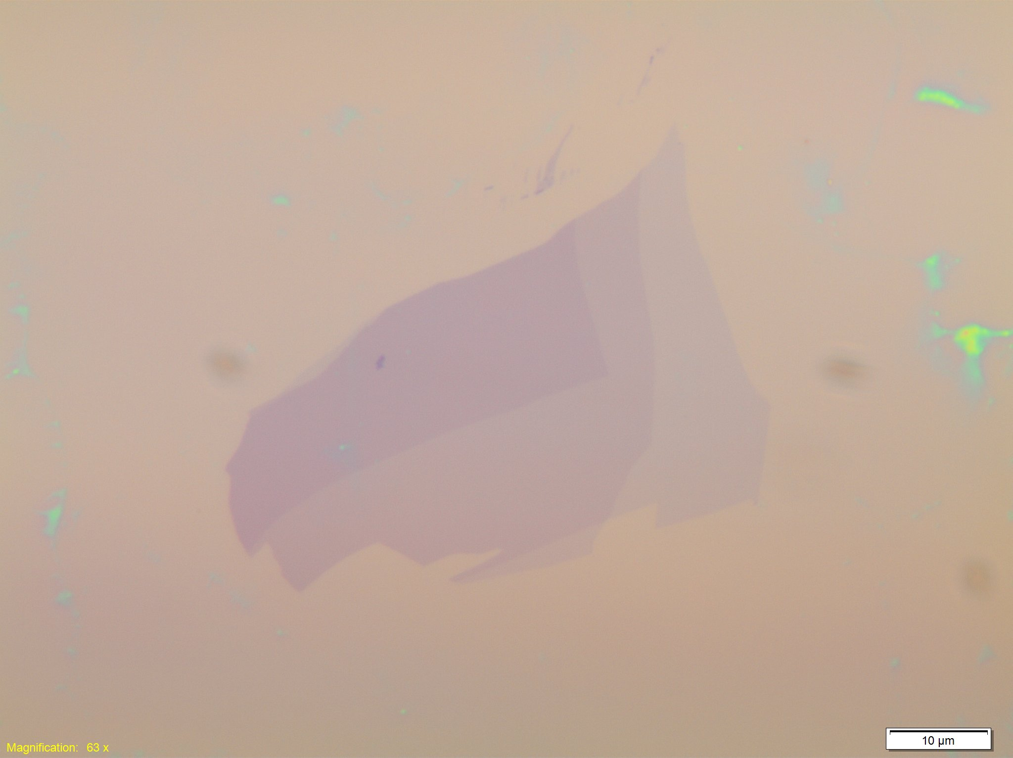 Mechanically exfoliated graphene on a Si/SiO wafer